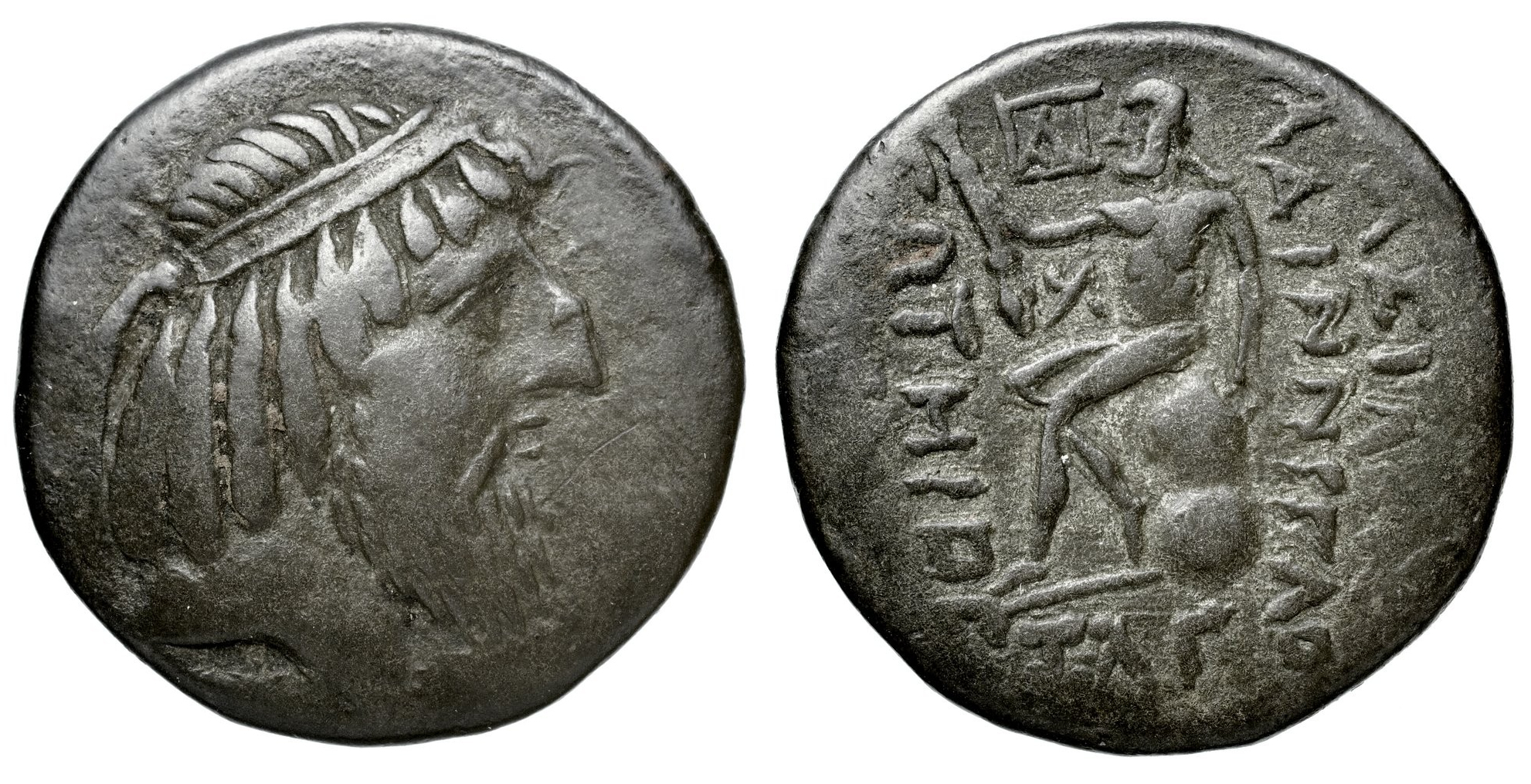 Coinage of Abinerglos